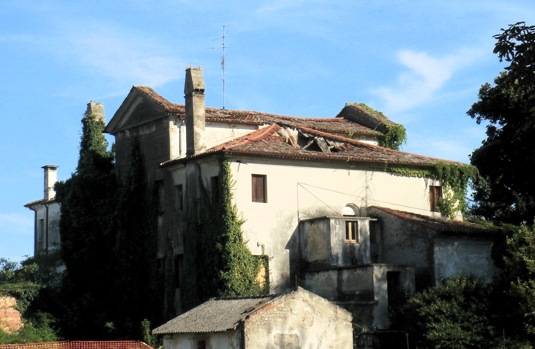 Codognè, Treviso, Italia: deep degradation of Villa Travaini (XVII century).